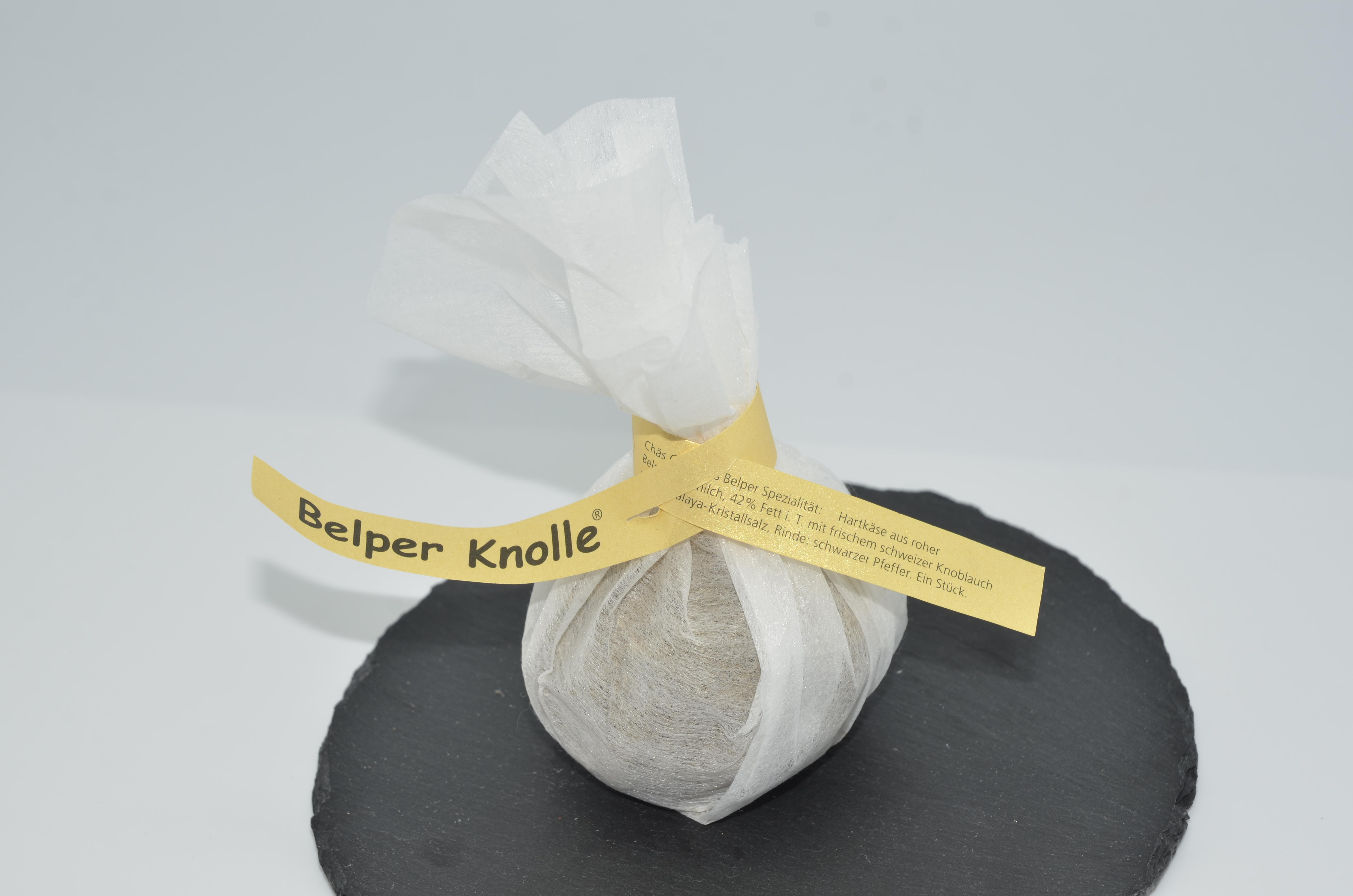 Belper Knolle Gold with packaging, yellow ribbon, WikiCheese Lausanne.